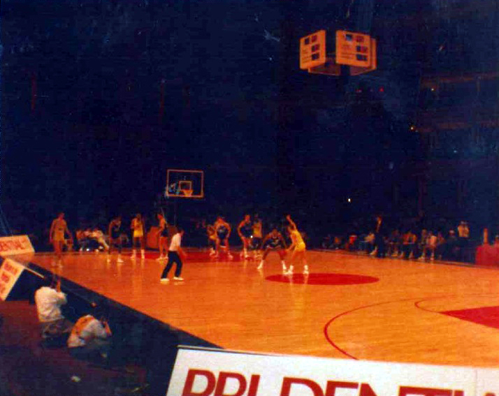 Portsmouth, in blue, defend against Kingston Kings in basketball's National Cup final at the Royal Albert Hall in London on 14 December 1987. Kingston won the match 90-84.